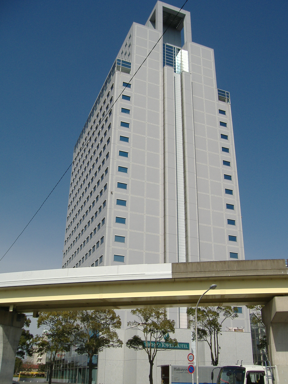 Yokohama Kanazawa High-tech Center